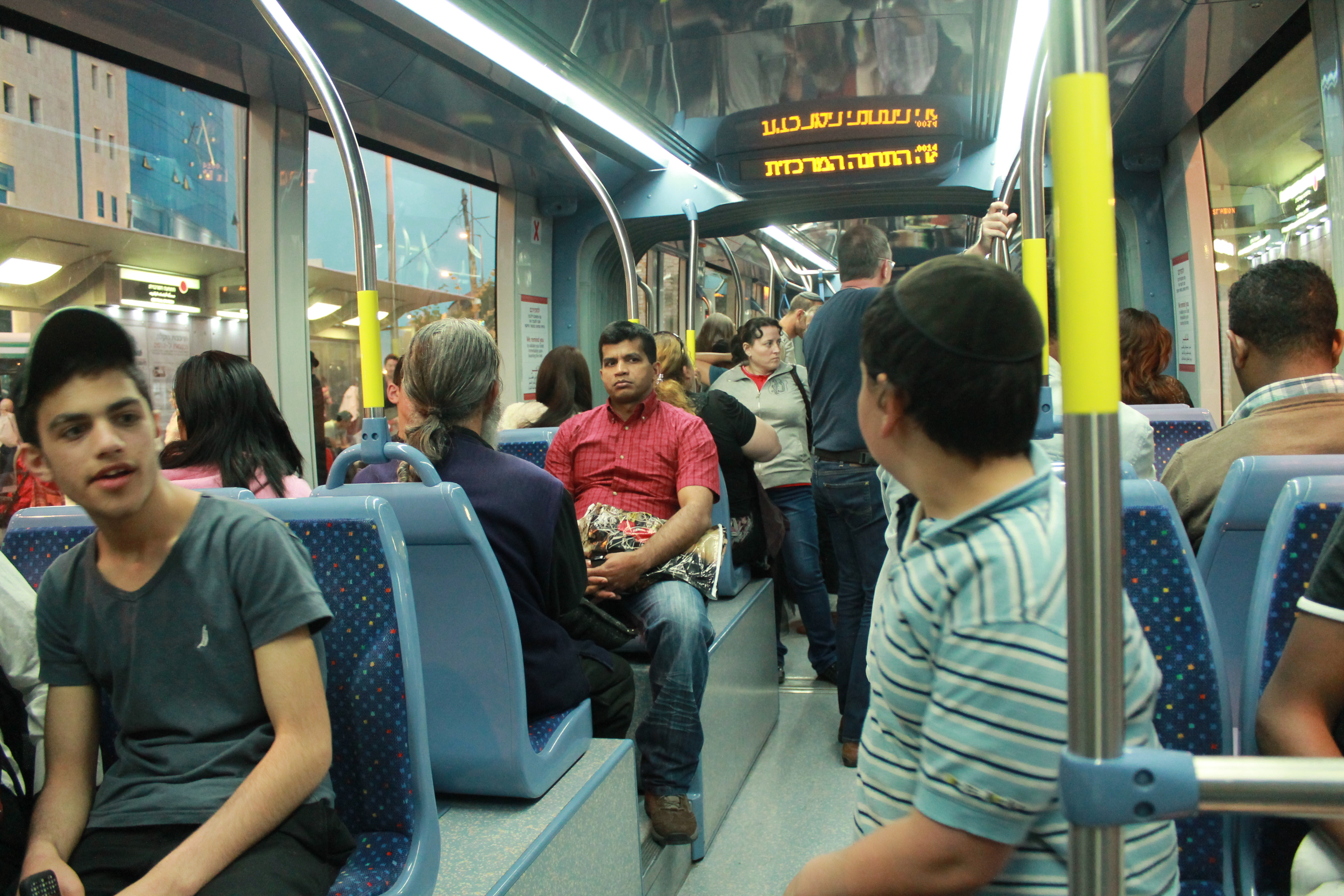 light train inside